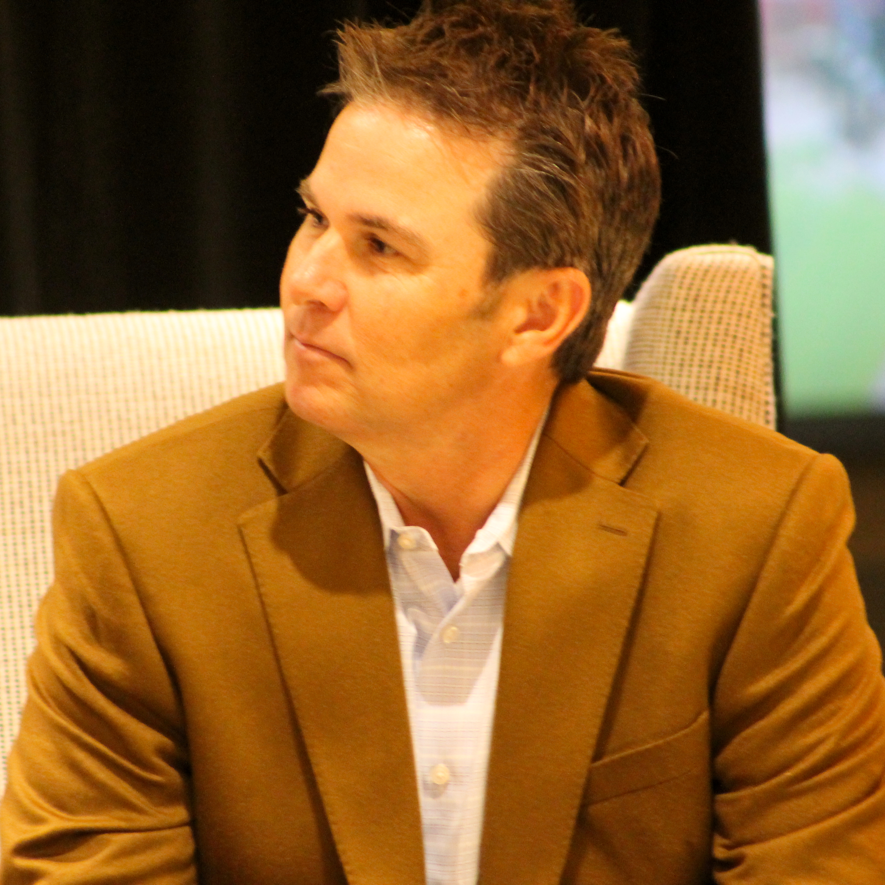 Baseball commentator and former professional baseball player Steve Sparks at a Houston Astros event in January 2015.